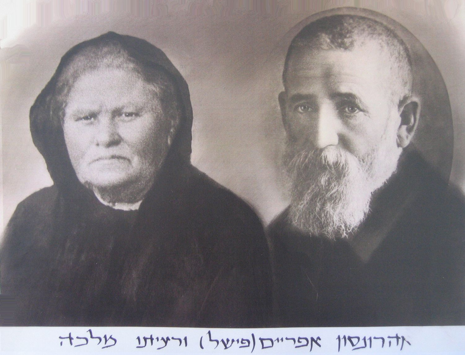 Parents of Aharon Aharonson, People of Israel